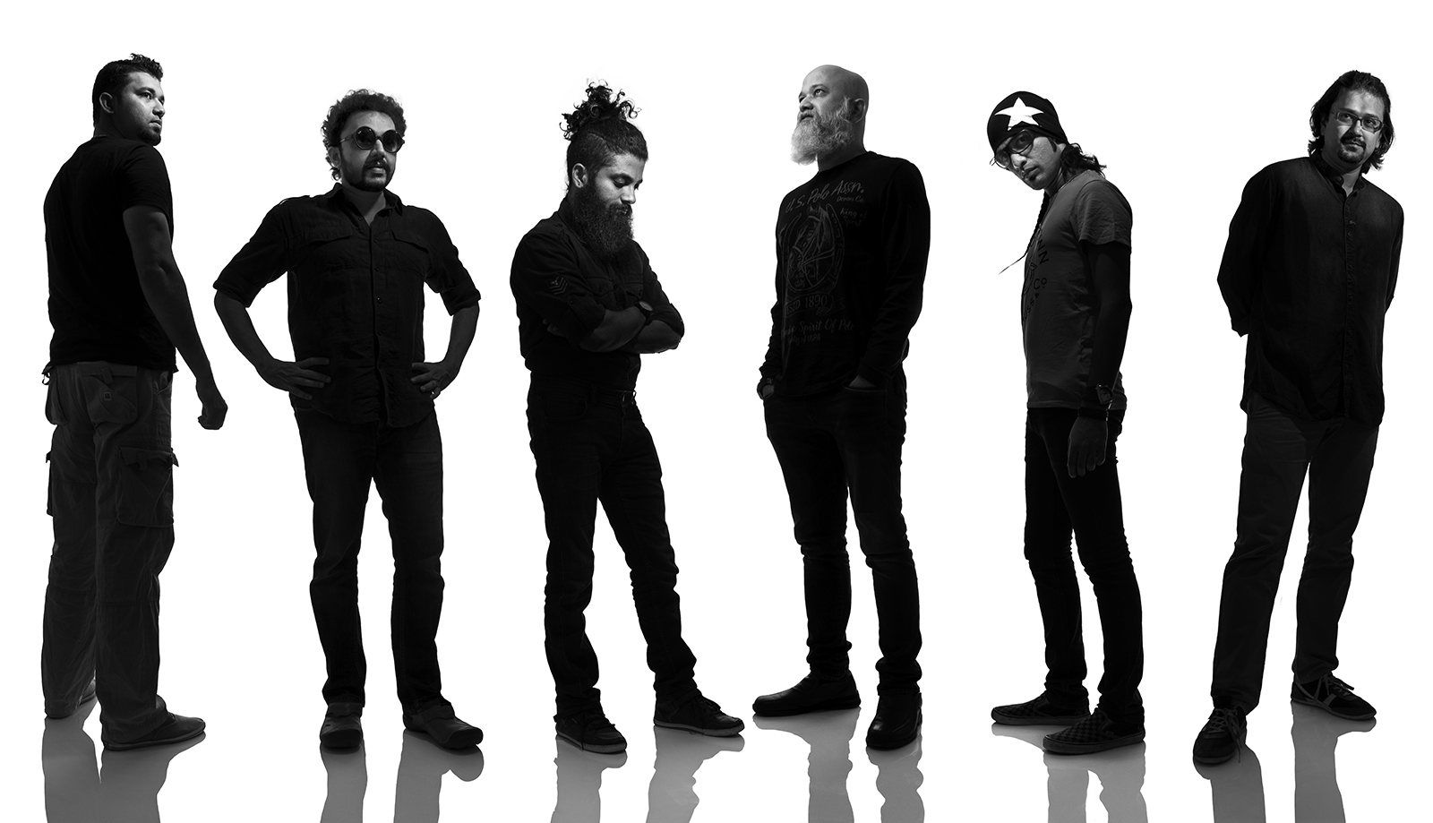 Swarathma band 2017 lineup official photoshoot